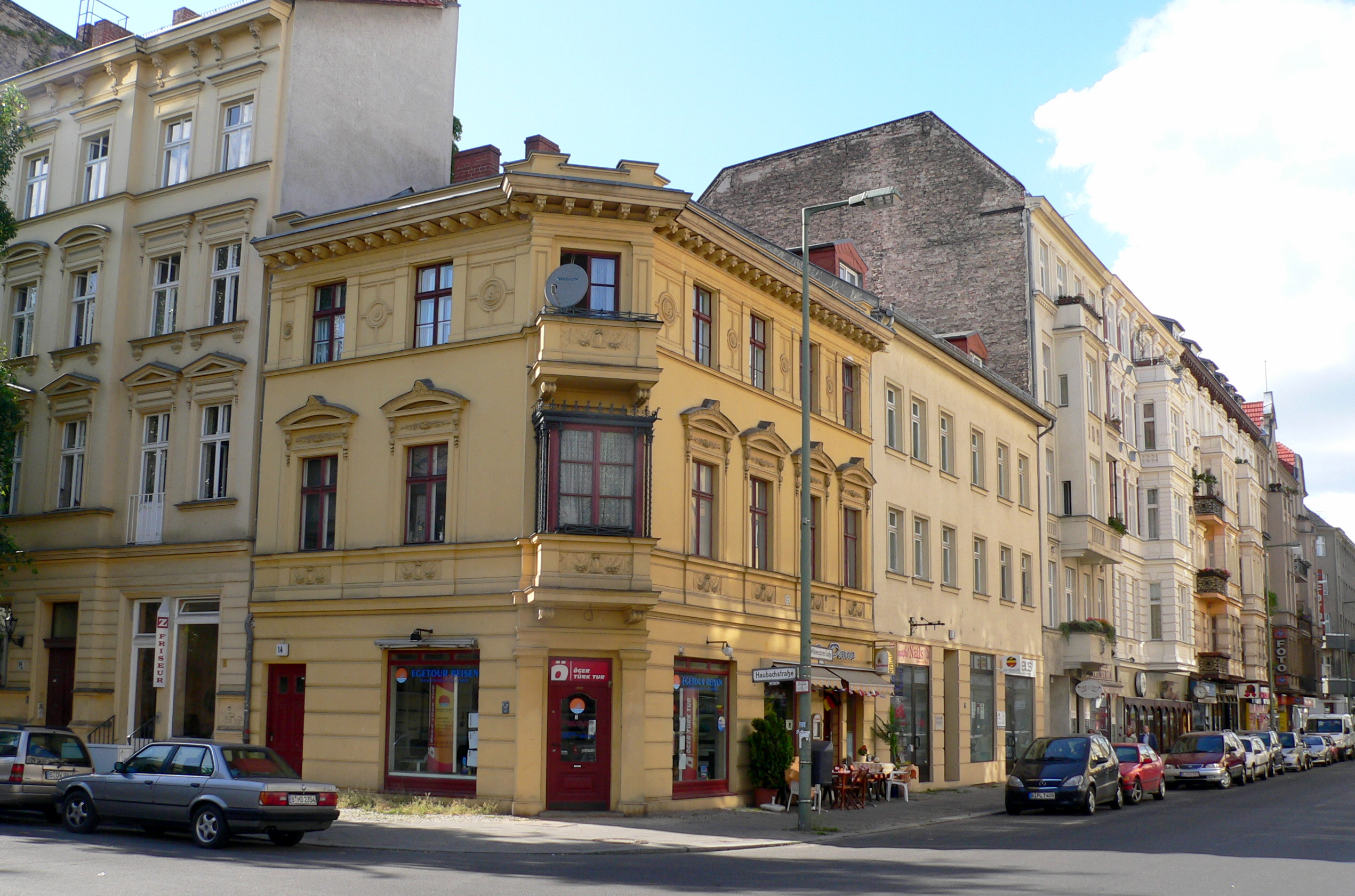 Berlin-Charlottenburg: Wilmersdorfer Straße 17 and Haubachstraße 14.